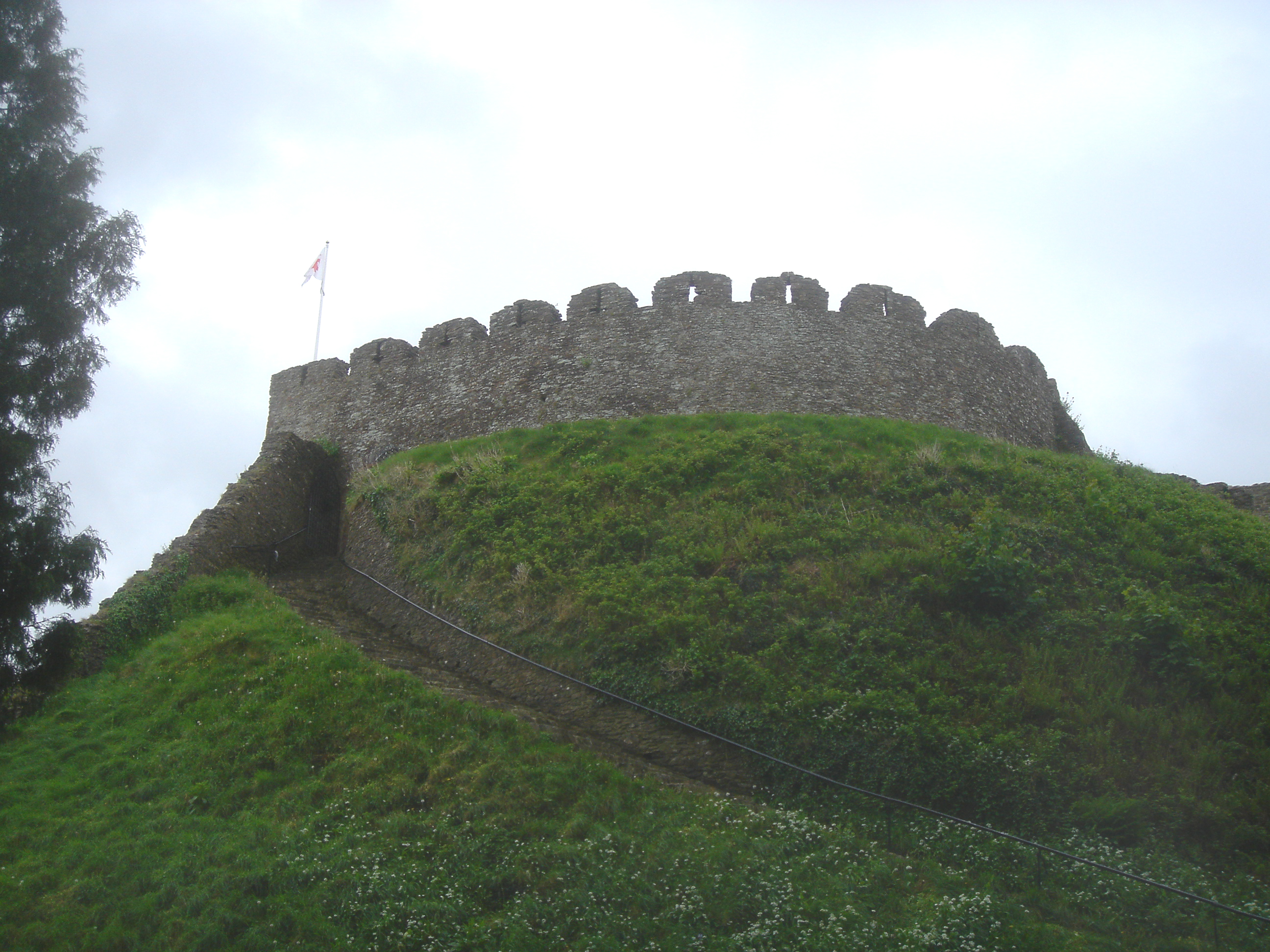 Totnes Castle, Devon, UK, view from inner yard